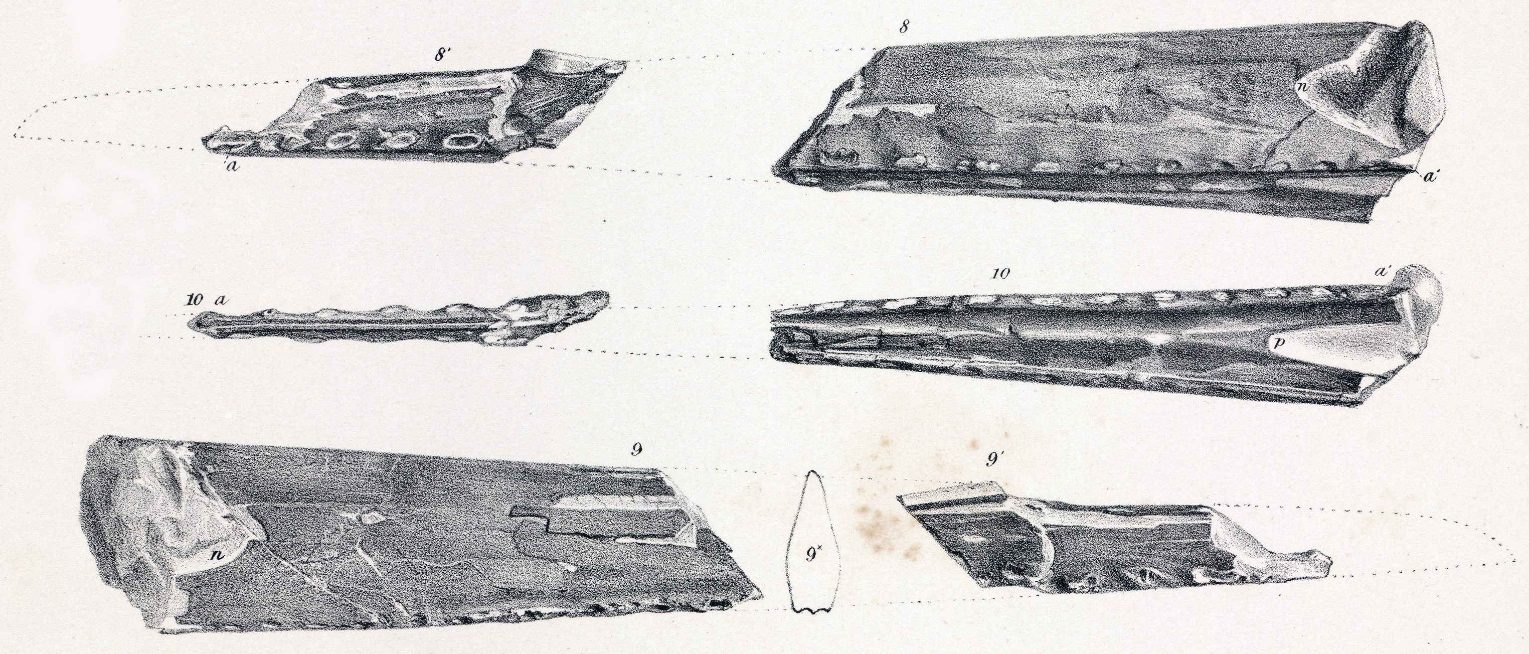 Fig. 8. Left side of two portions of the upper jaw of Pterodactylus compressirostris (BMNH 39410), nat. size ; a, a, alveoli; n, nostril. Fig. 9. Right side of the same two portions of jaw; n, nostril. Fig. 9*. Transverse section of the jaw at the fore part of the hinder fragment. Fig. 10. Palatal surface of the same two portions of jaw ; p, the naso-palatine aperture. From the Burham Chalk-pit, Kent; in the Cabinet of James S. Bowerbank, Esq., F.R.S.